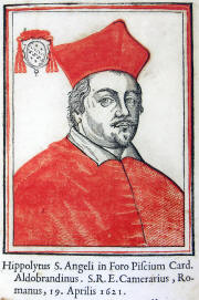 Cardinal Camerlengo Ippolito Aldobrandini, picture by unknown author ca. 1630